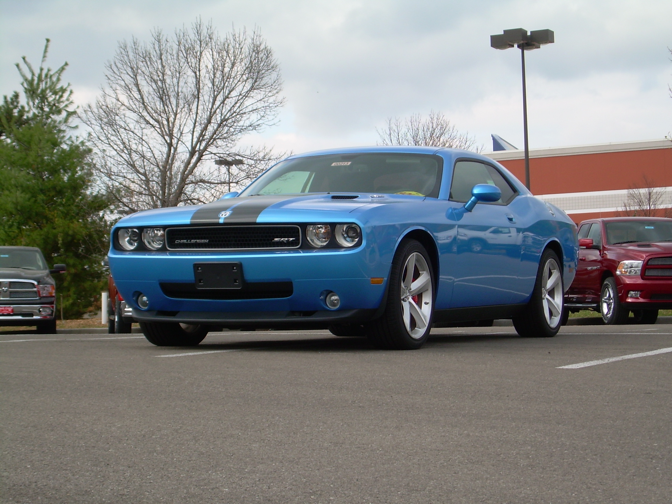 Dodge Challenger SRT8 B5 Blue